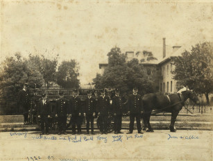 This photograph was taken in front of St. Joseph Infirmary. Firefighters in the photograph have been identified, left to right: Doc "Cary"; Nick Burello, Mike Latrop, Fred Nash, Bill, Tony, Magerson Smith (died in line of duty), Joe Reo, with horses Jim and Allie.